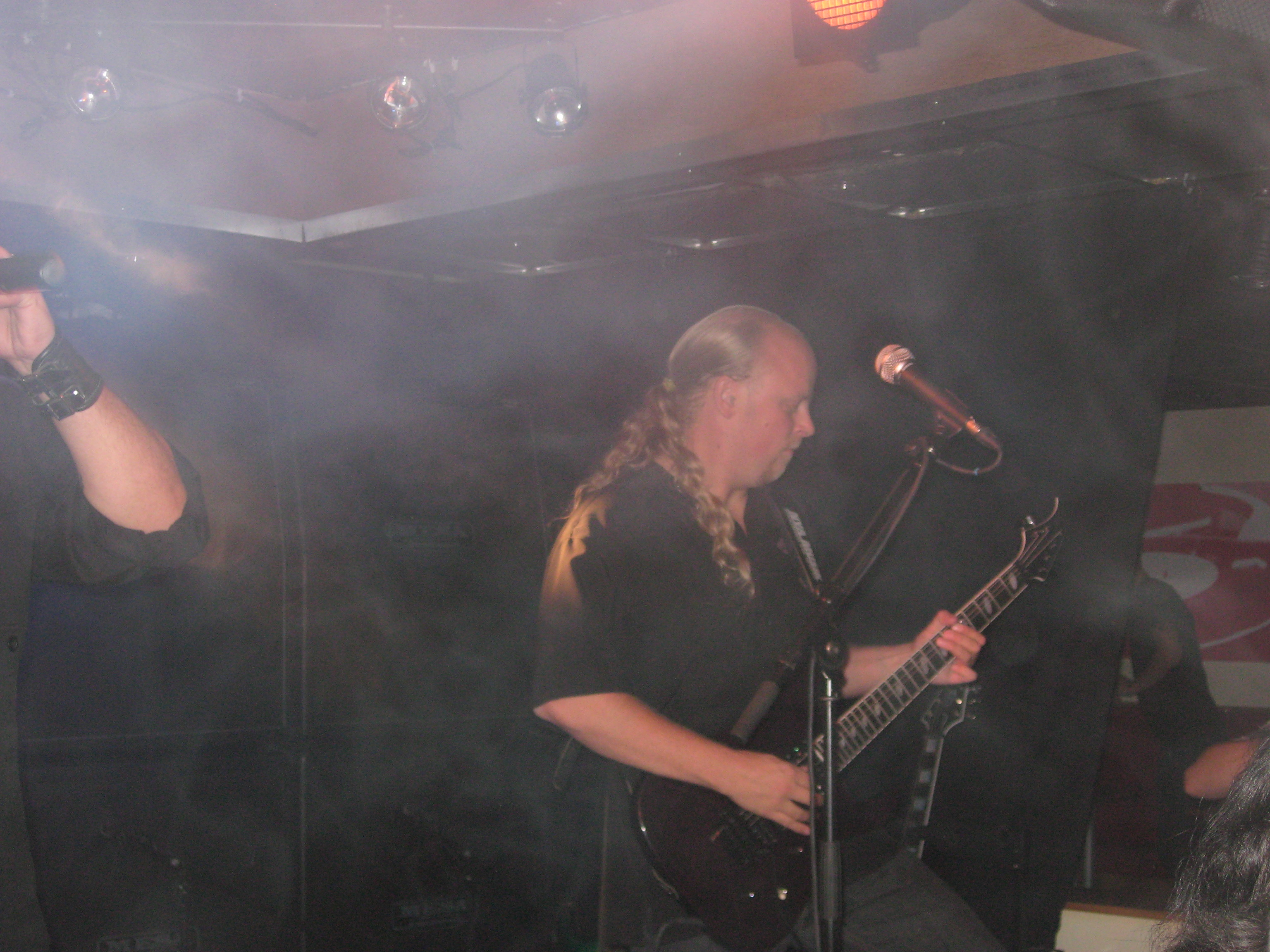 Grimmark at a livegig in Jönköping 2009